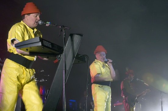 Devo Festival Hall, Melbourne, July 2008 See the full gallery - [1]